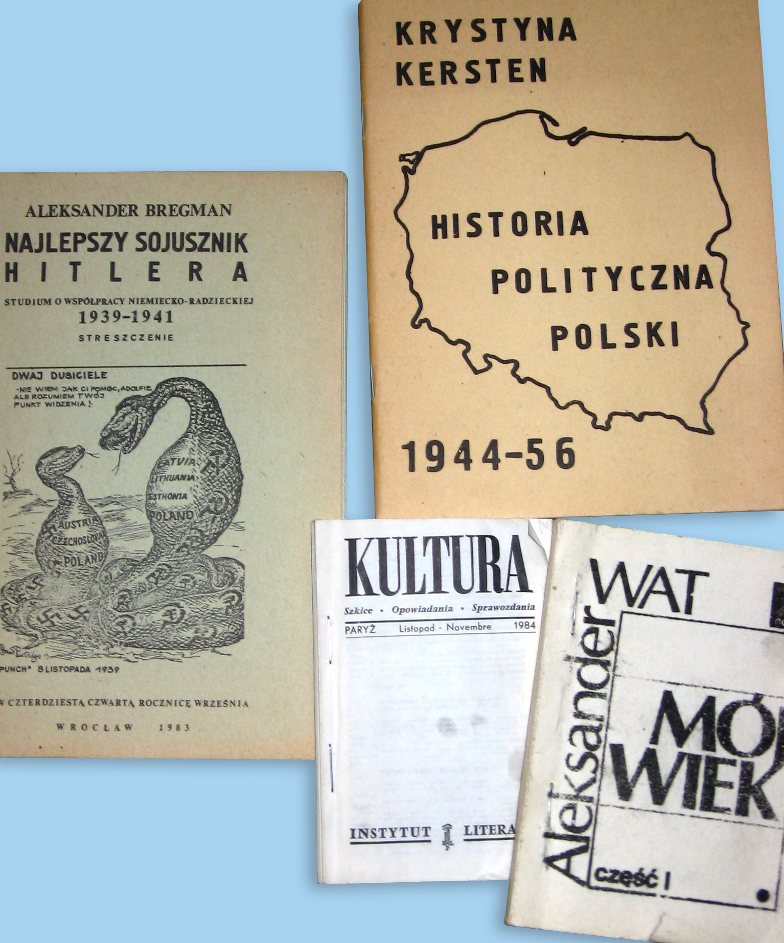 Polish samizdat books & brochures printed in 1980's